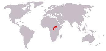 Okapi map.